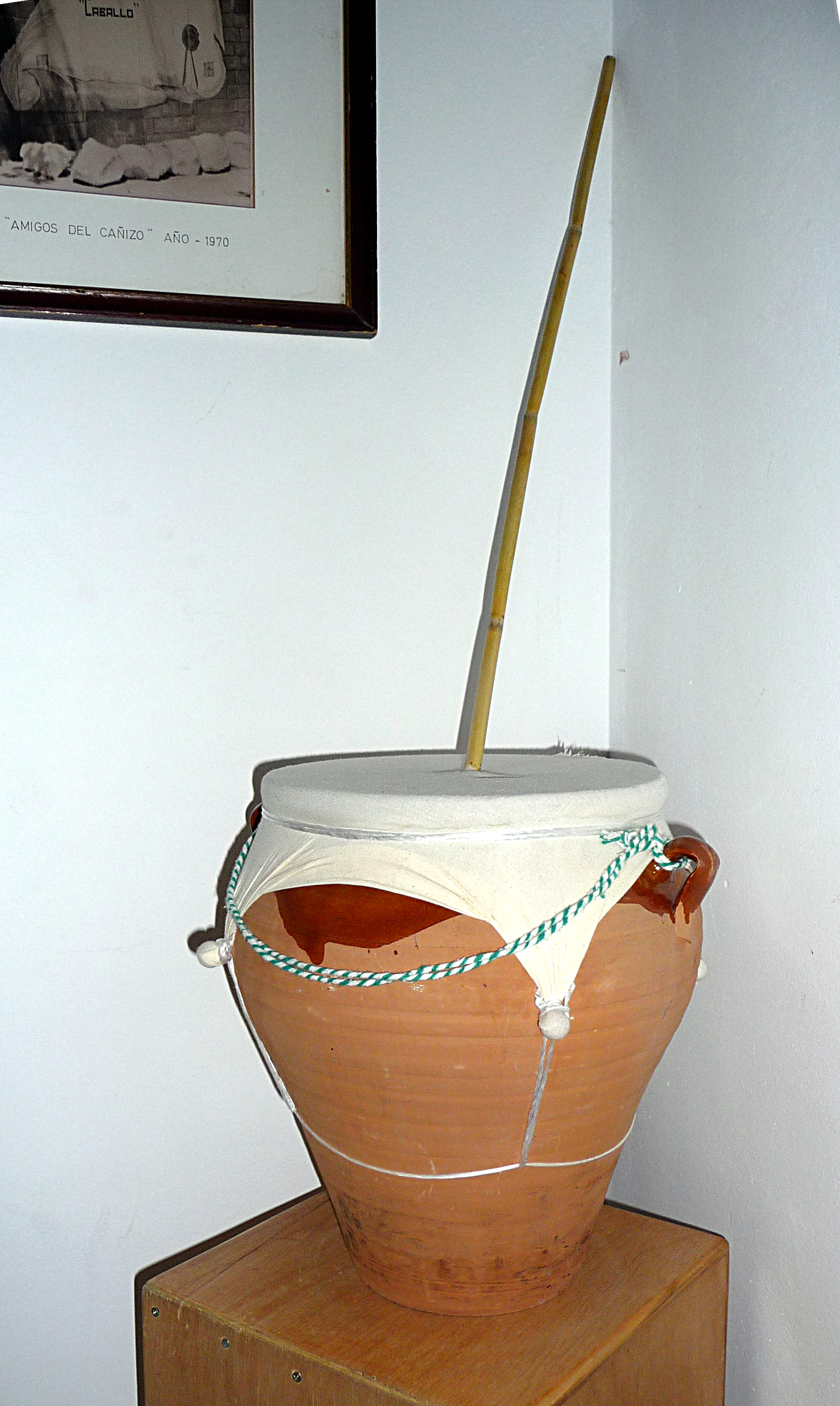 Zambomba music instrument (Friction drum)